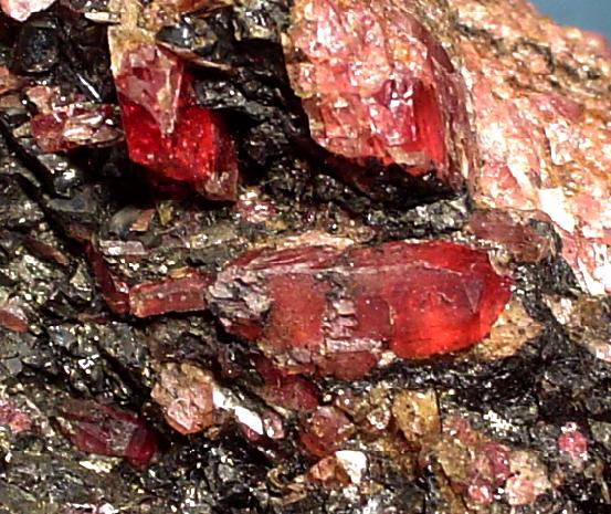 Pyroxmangite Locality: Taguchi mine, Shidara, Kita-Shidara-gun, Aichi Prefecture, Chubu Region, Honshu Island, Japan (Locality at ) Size: 7.9 x 7.0 x 2.4 cm. Pyroxmangite is an uncommon high-temperature manganese silicate. Gemmy, lustrous, bright cherry-red crystals to 9 mm are attractively scattered on the matrix plate on this showy, old-time specimen from the Taguchi Mine. This long-abandoned Japanese manganese mine, now overgrown with forest, was once famous for the world’s best pyroxmangite crystals, some even suitable as gems. This is a highly representative example of the uncommon species and historic locale. Some of the crystals are cutter quality. Very rare in this size and quality.